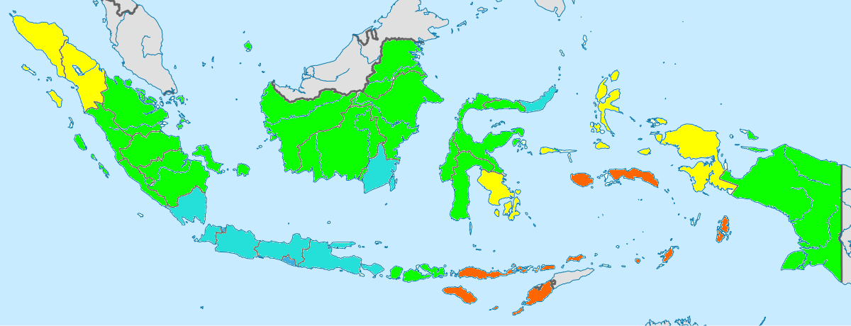 Indonesia total fertility rate by province 2010